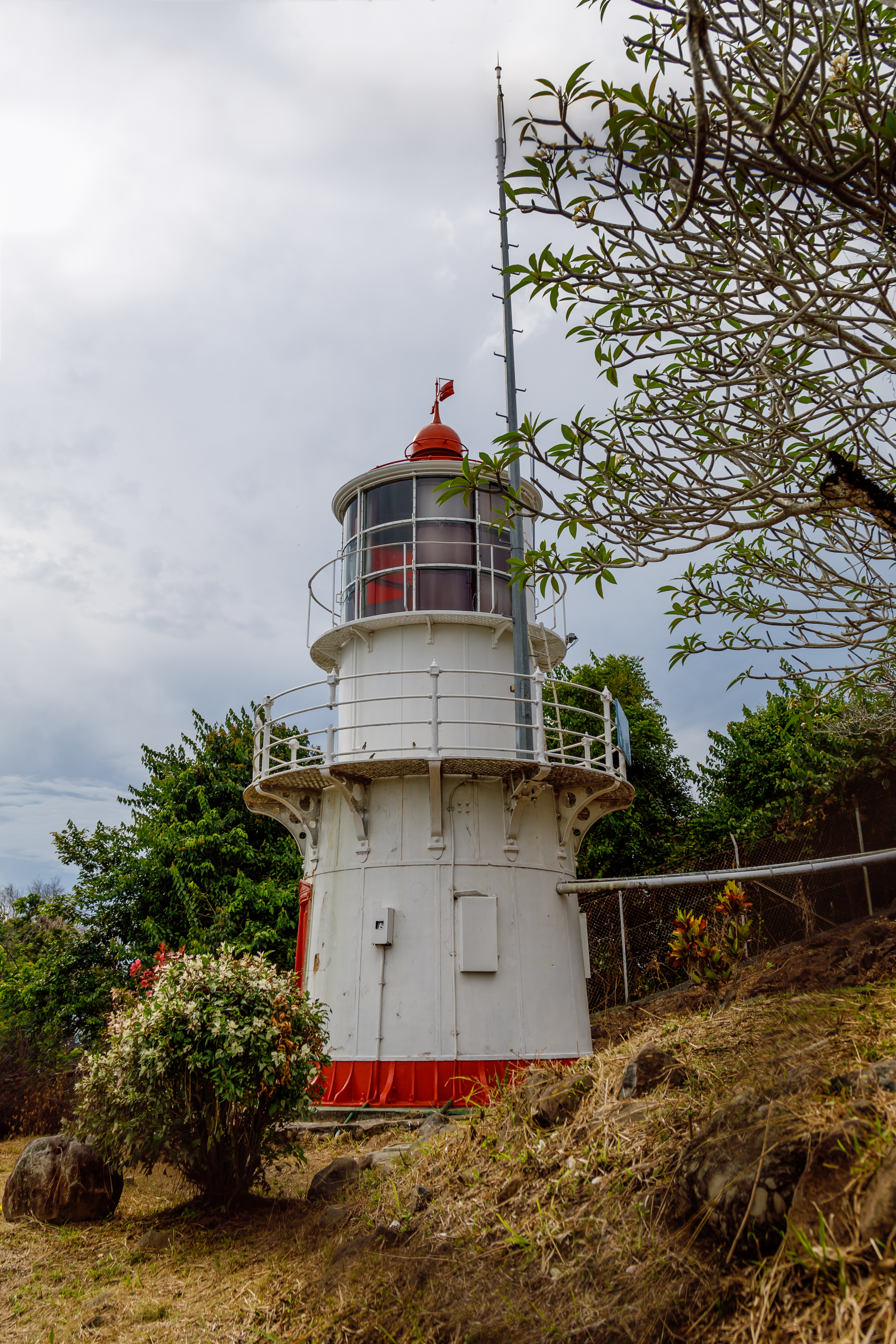 Tawau, Sabah: Batu Tinagat Lighthouse (Rumah Api Batu Tinagat). The lighthouse was inaugurated in 1916.